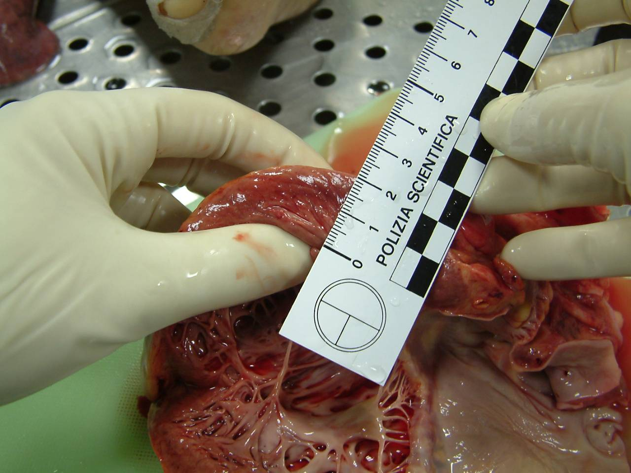 An image showing hypertrophic cardiomyopathy as the likely cause of heart failure.